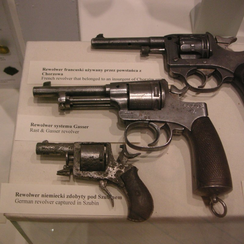 made during a summer day in Warsaw's Museum of the Polish Army; Various types of revolvers used in the Greater Poland Uprising